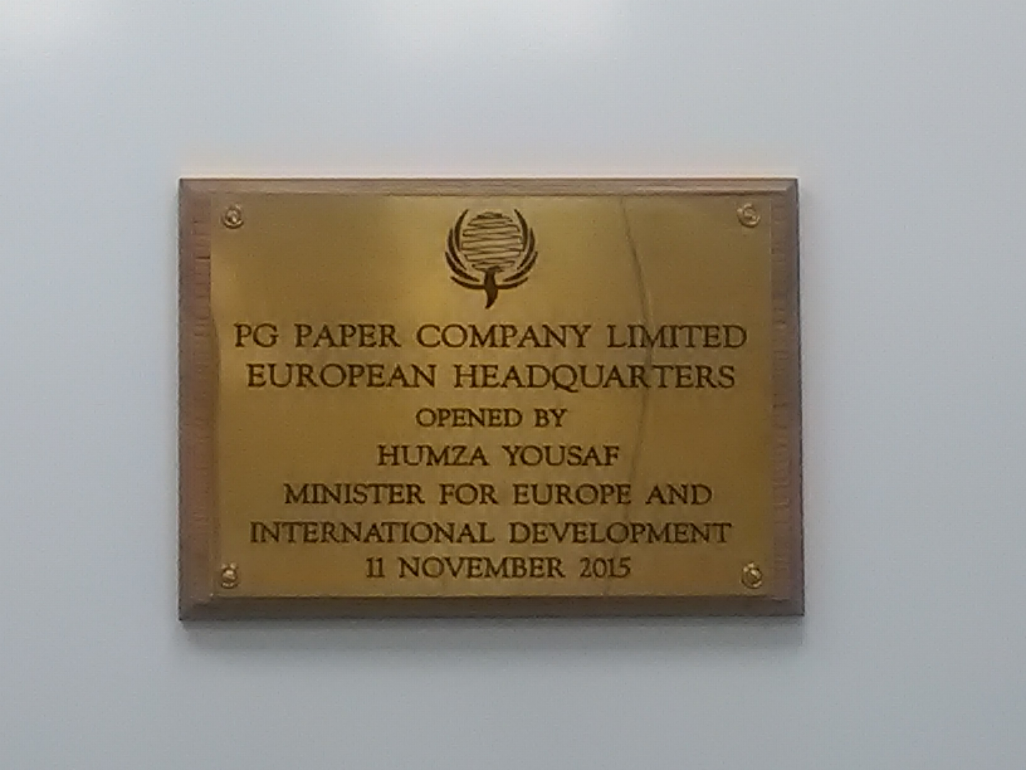 Officially Opened by Humza Yousaf in 2015.